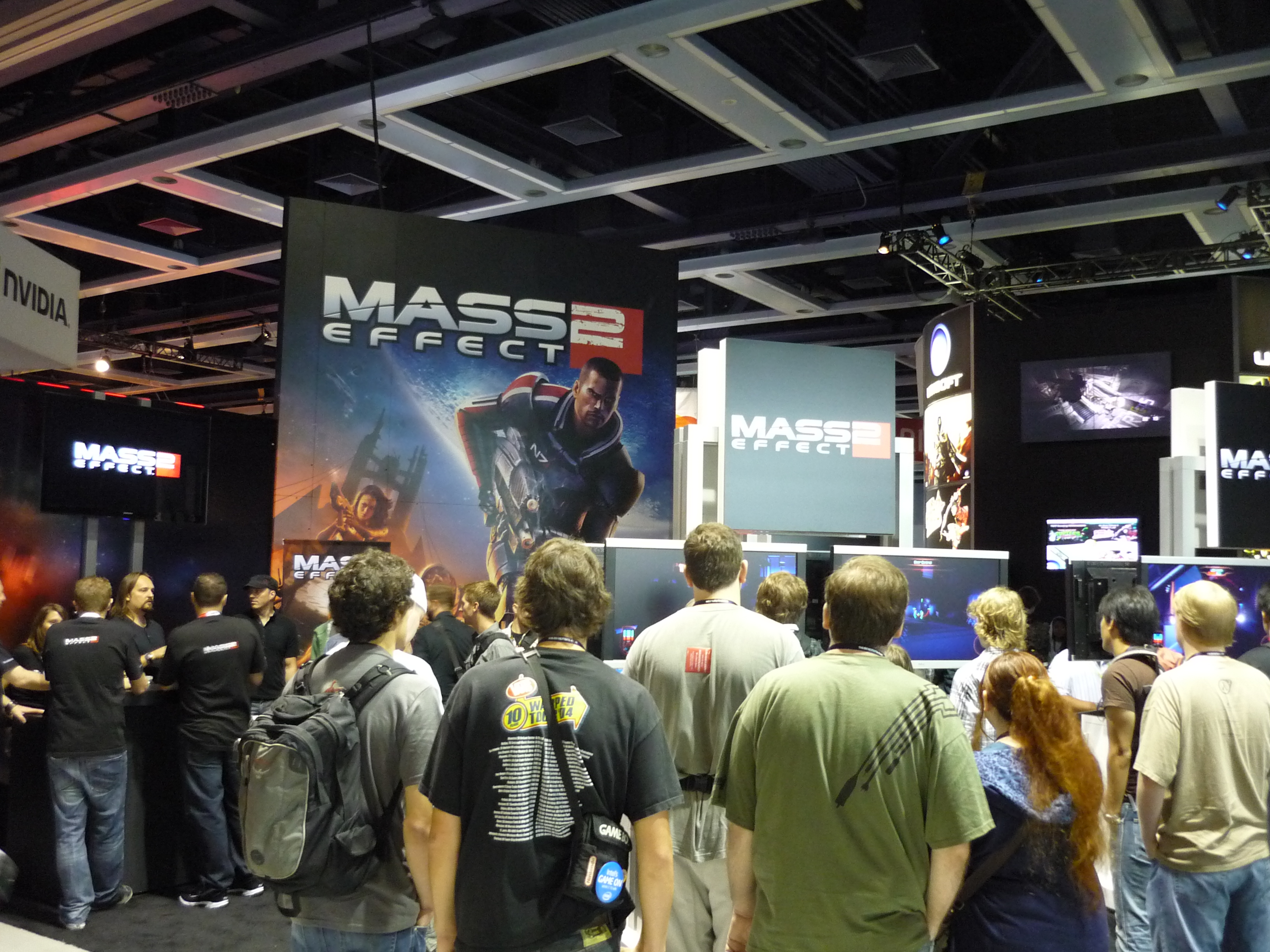 Mass Effect 2 Booth Taken at Penny Arcade Expo 2009.